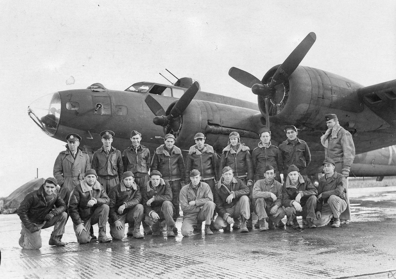 Bomber crew and Ground crew of the 306th Bomb Group with their B-17 Flying Fortress. Passed for publication 2 Feb 1943. Printed caption on reverse: 'American Airmen Who Made First Daylight Raid On Germany. Associated Press Photo Shows: The crew and ground crew of the Fortress which made first raid on Germany in daylight. $Censor: We have names and hometowns of all.$ TET 254778. I 243.' On reverse: Associated Press, US Army Press Censor ETO and US Army General Section Press & Censorship Bureau [Stamps].